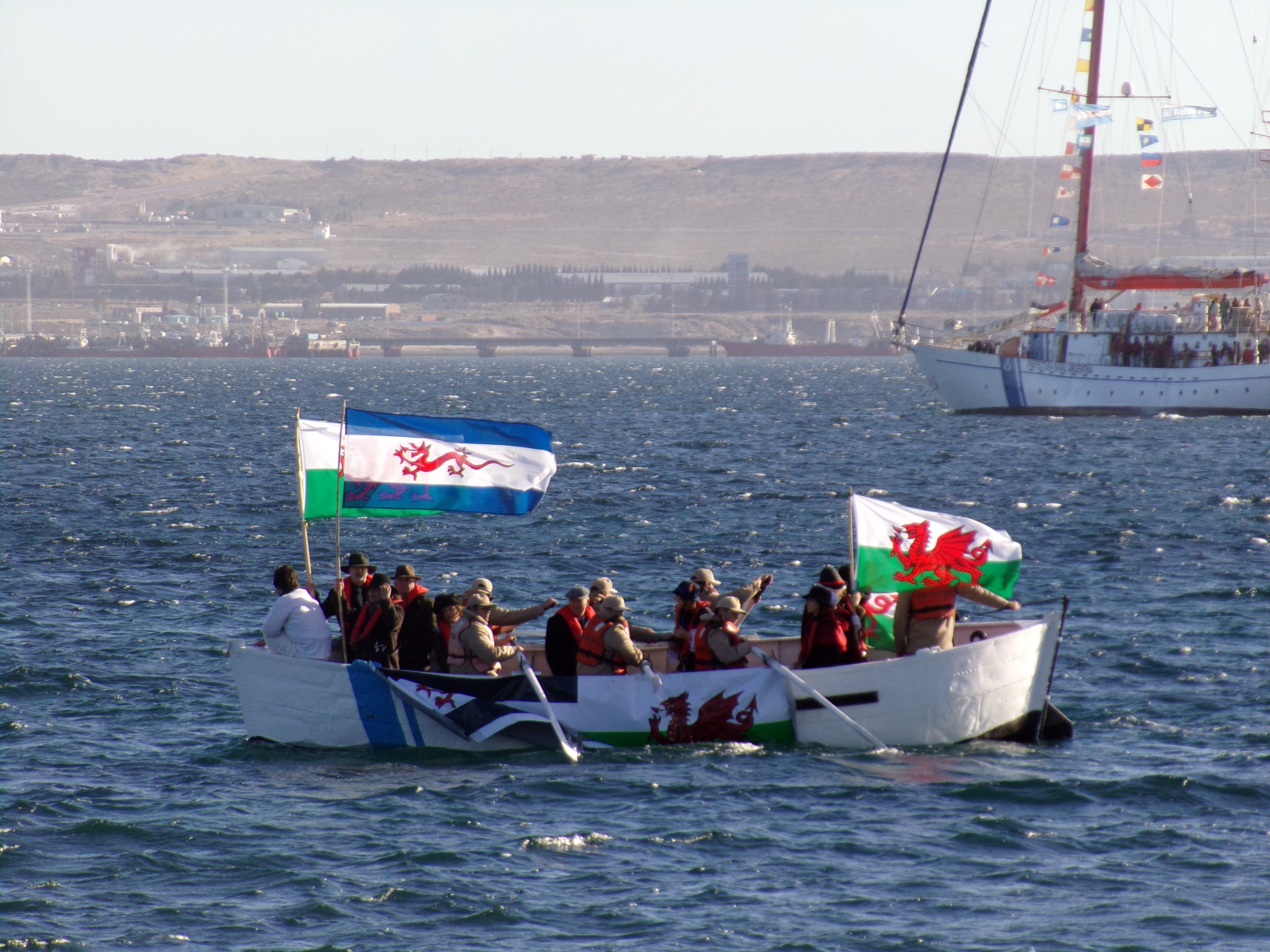 Recreation of the landing of Mimosa sailboat in Punta Cuevas, Port Madryn.